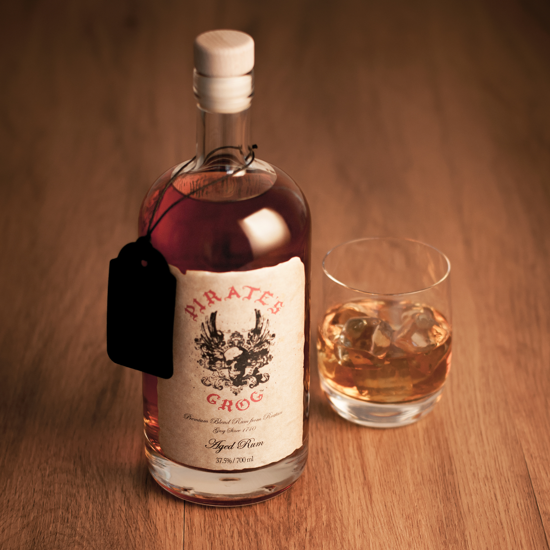 A bottle of Pirate's Grog rum, 700ml @ 37.5%